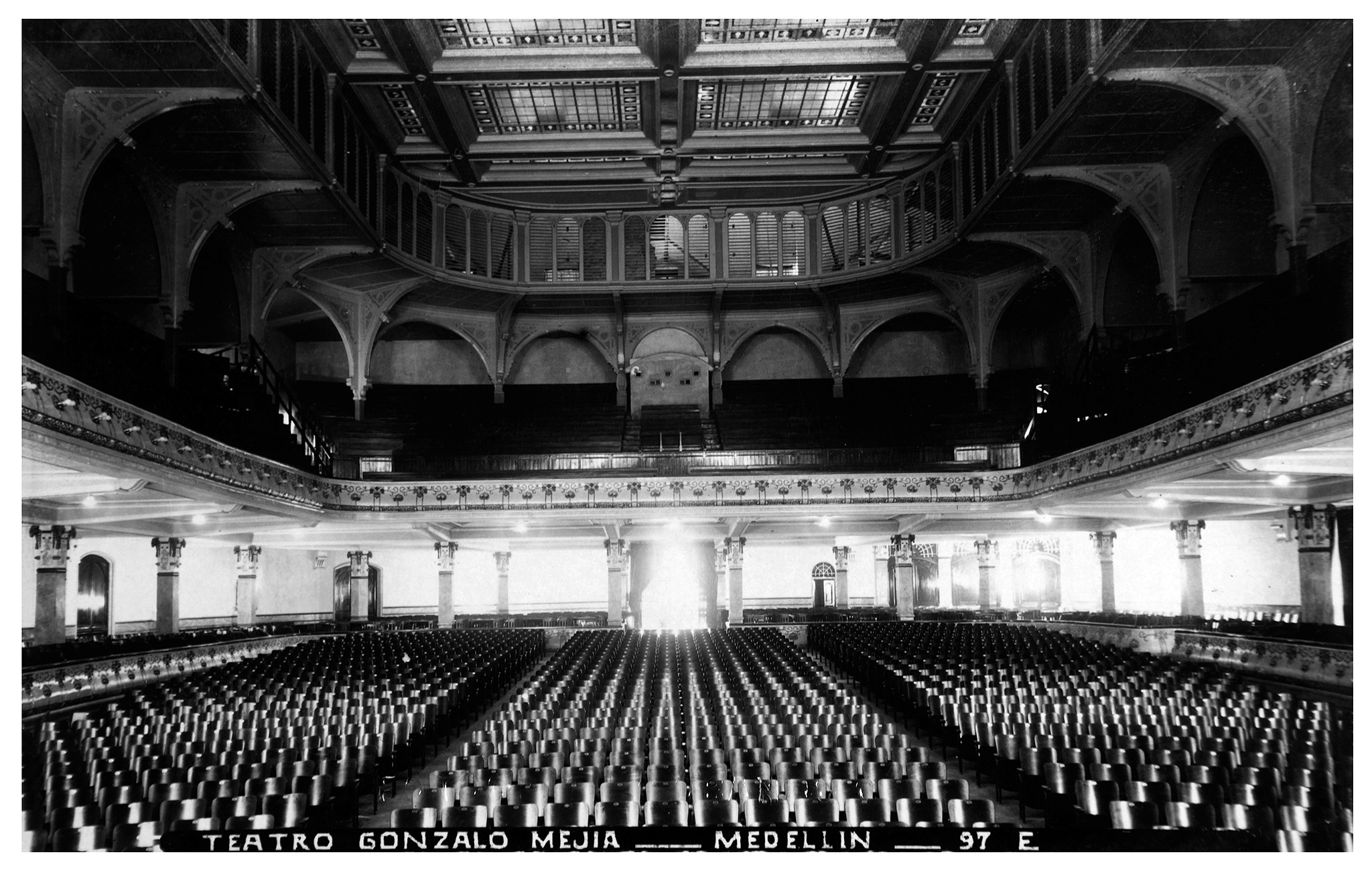 Teatro Gonzalo Mejía. Medellín, 1924